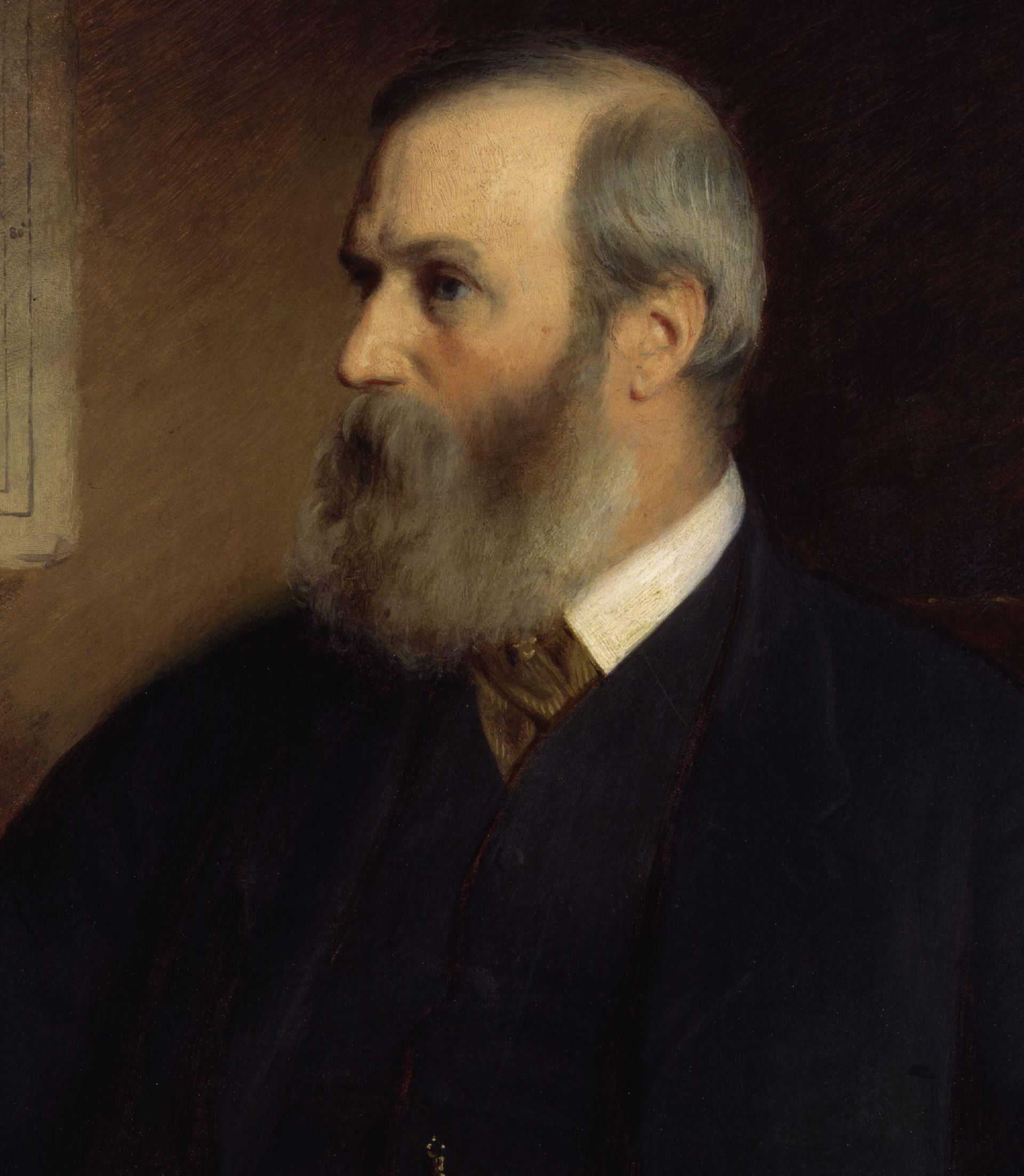 Benjamin Leigh Smith, by Stephen Pearce (died 1904). All images in this batch have been confirmed as author died before 1939 according to the official death date listed by the NPG.